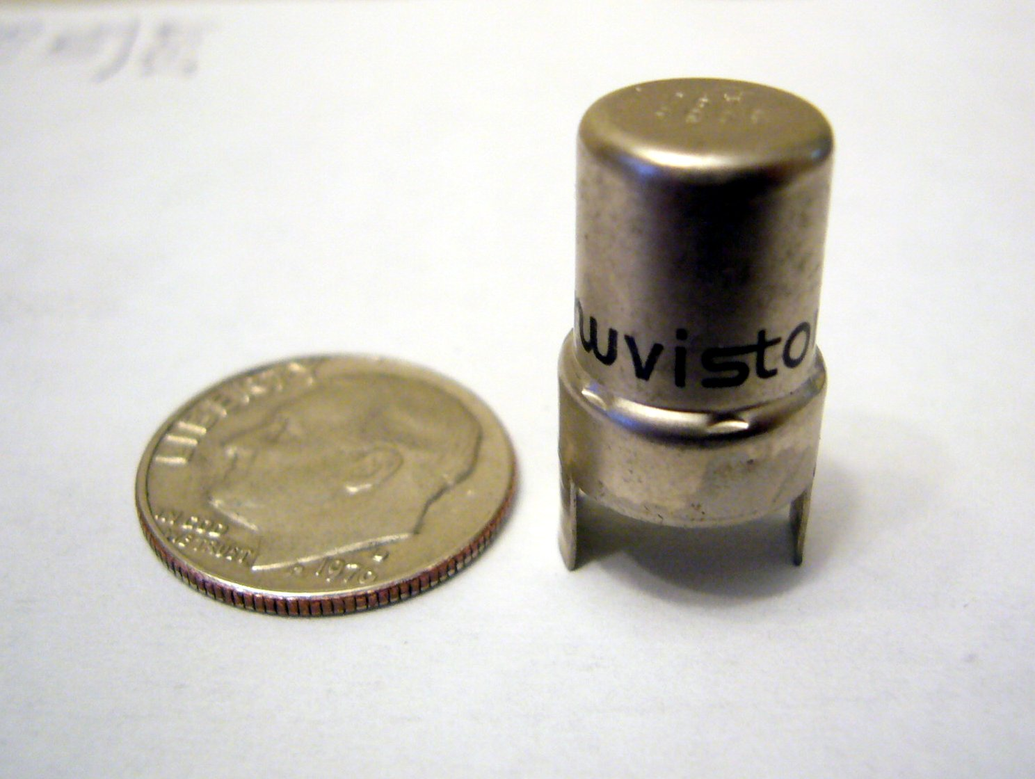 Nuvistor electronic tube, next to a U.S. dime for scale